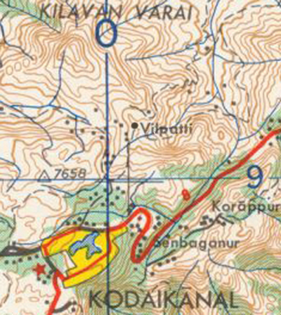 Vilpatti, Kodaikanal, Tamil Nadu, India